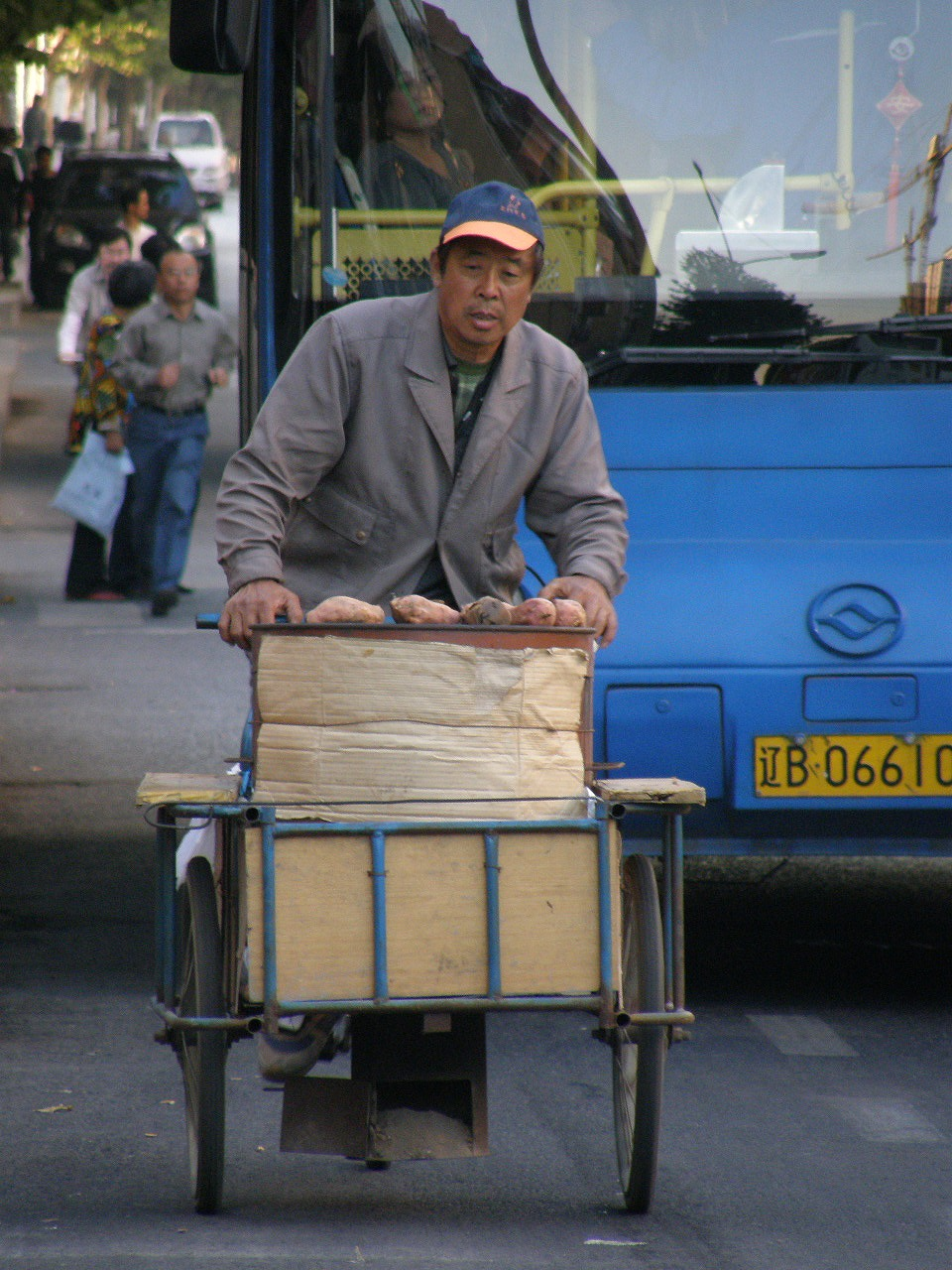 Baked sweet potato vendor china